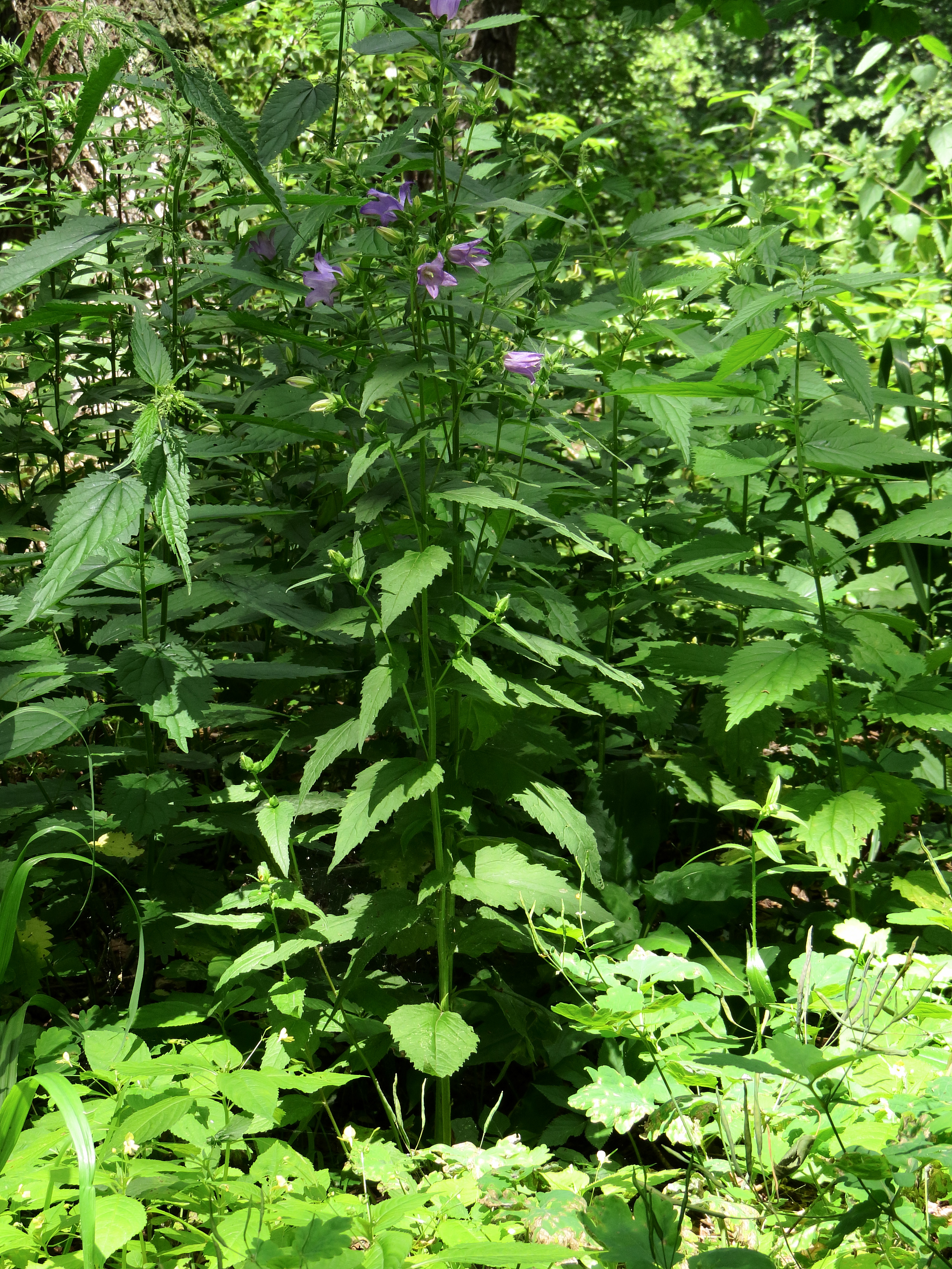 Campanula trachelium in the forest near Moshchun river, Kiev oblast, Ukraine